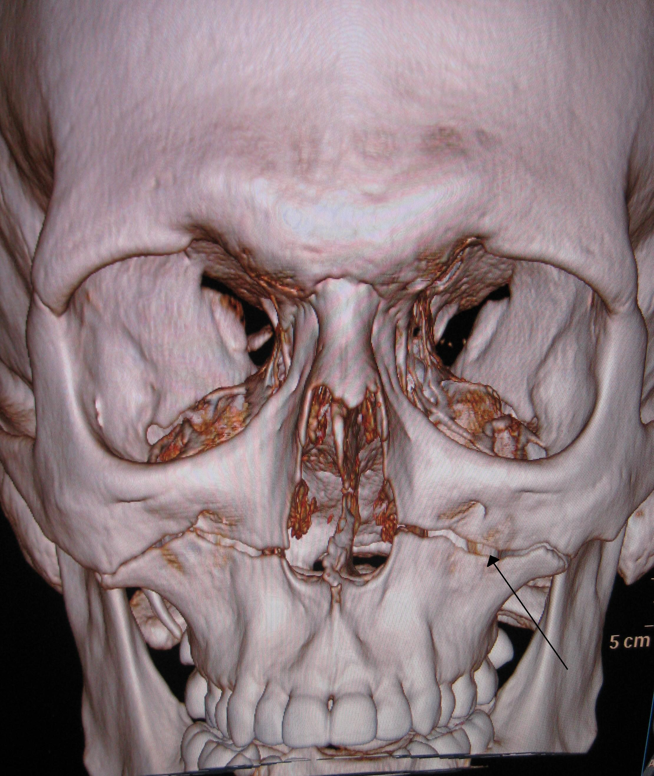 A 3-D CT reconstruction showing a LeFort type 1 fracture ( fracture line is marked by an arrow )